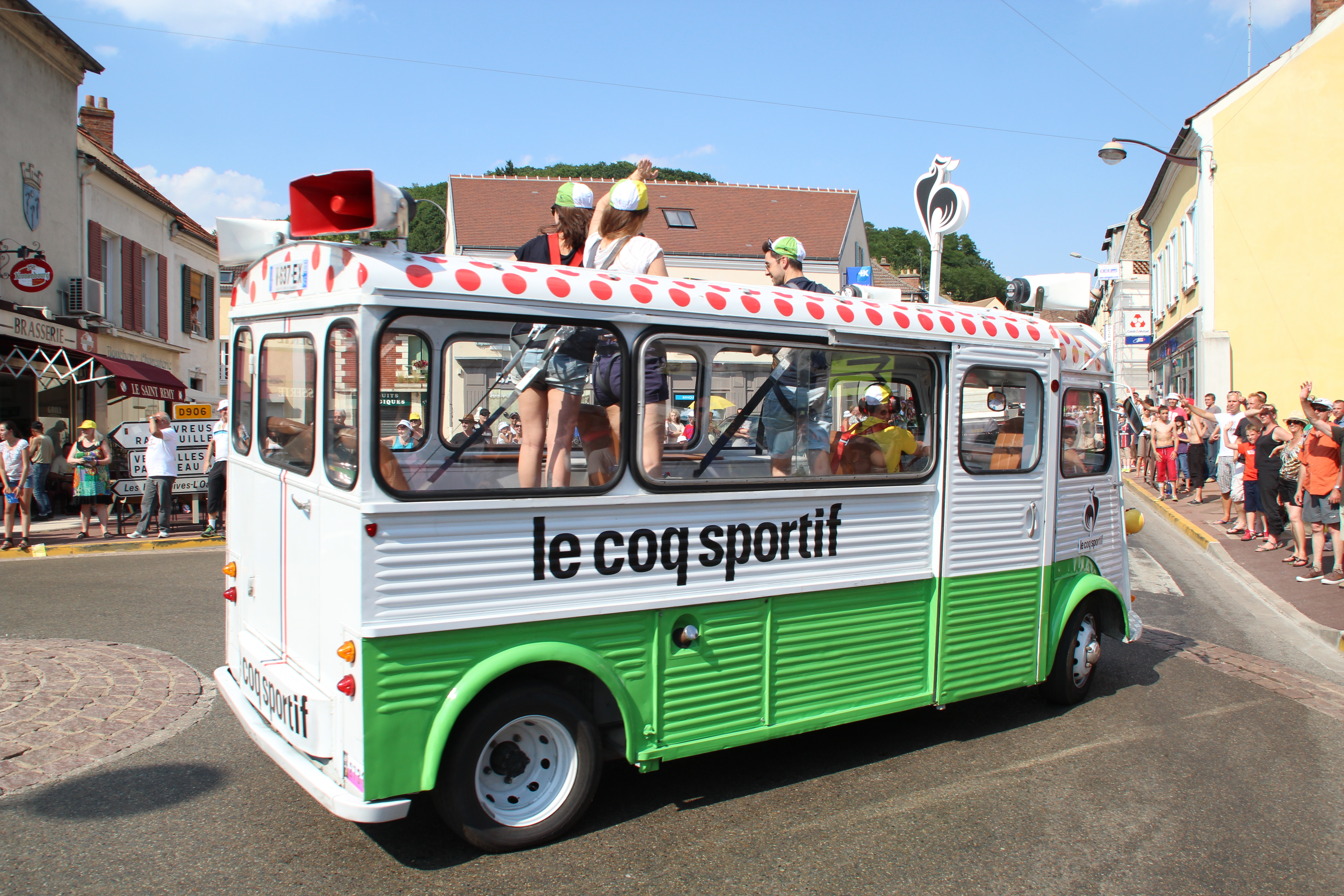 Tour de France 2013 sport event in Saint-Rémy-lès-Chevreuse, France